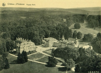 Ardenne Castle in Houyet (Belgium)